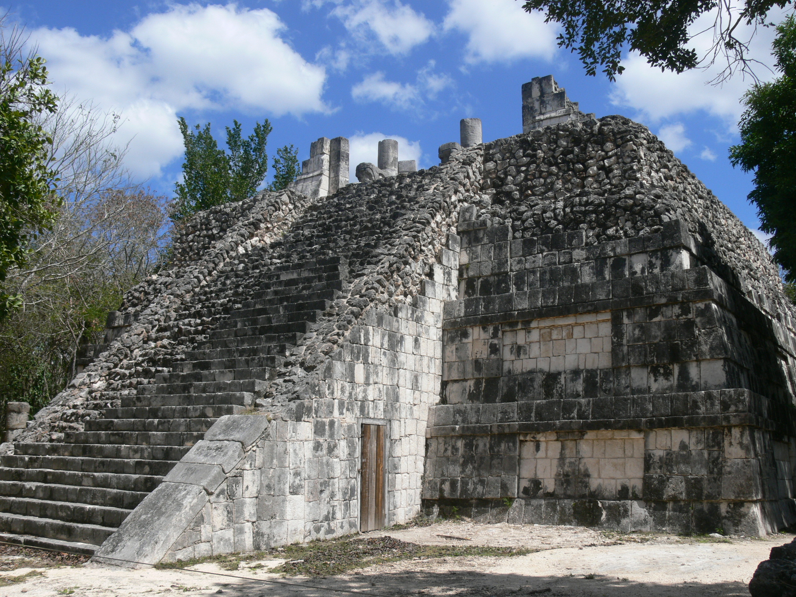 Chichén Itzá ( Yucatan ). Templo de las Grandes Mesas ( Temple of the Big Tables ).